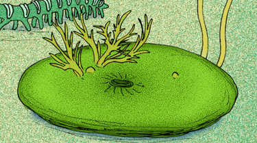 Reconstruction of the Chengjiang fossil, Rotadiscus grandis, a bizarre animal closely related to Eldonia. From Lower Cambrian Yunnan